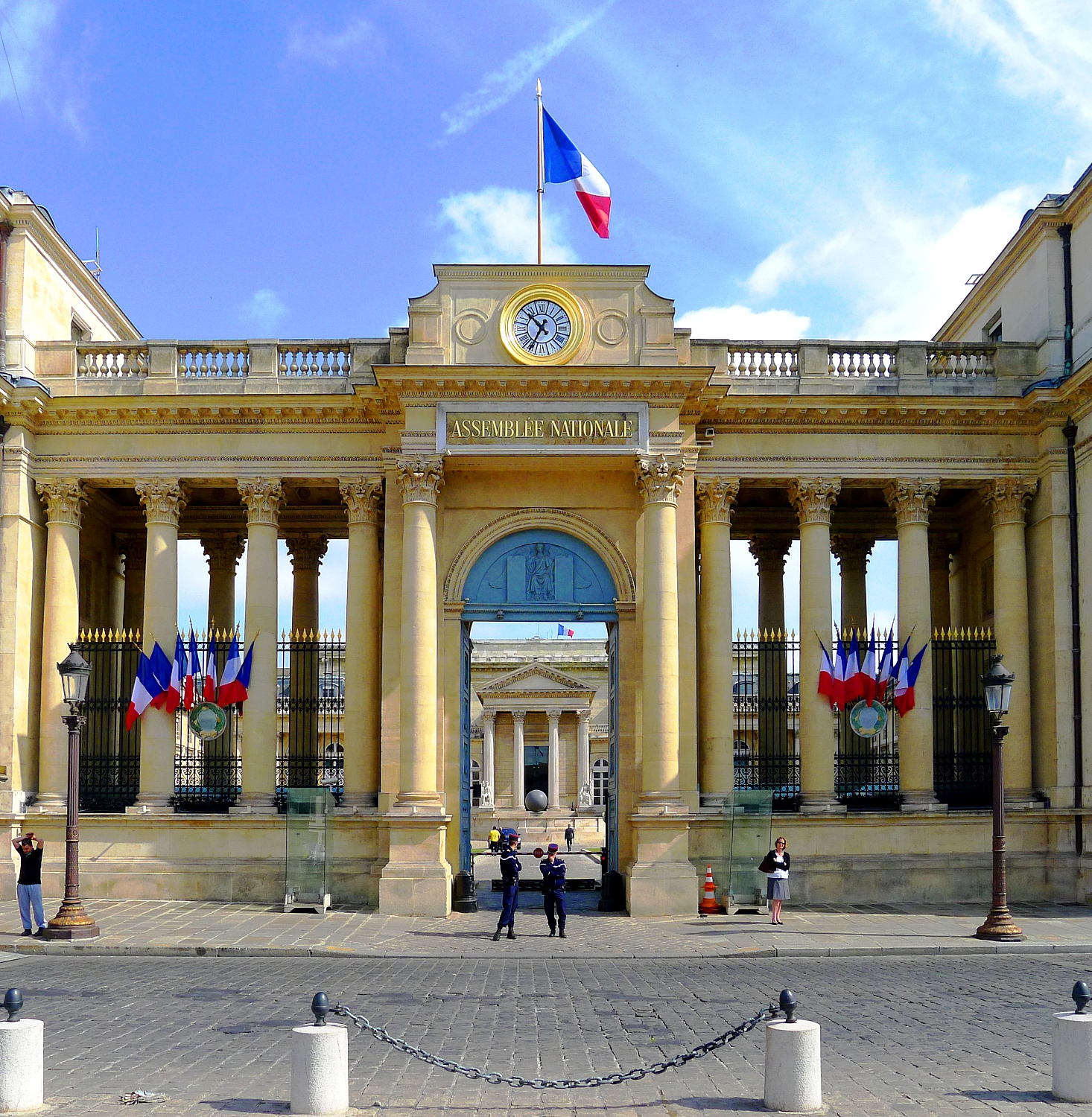 Palais-Bourbon - Paris